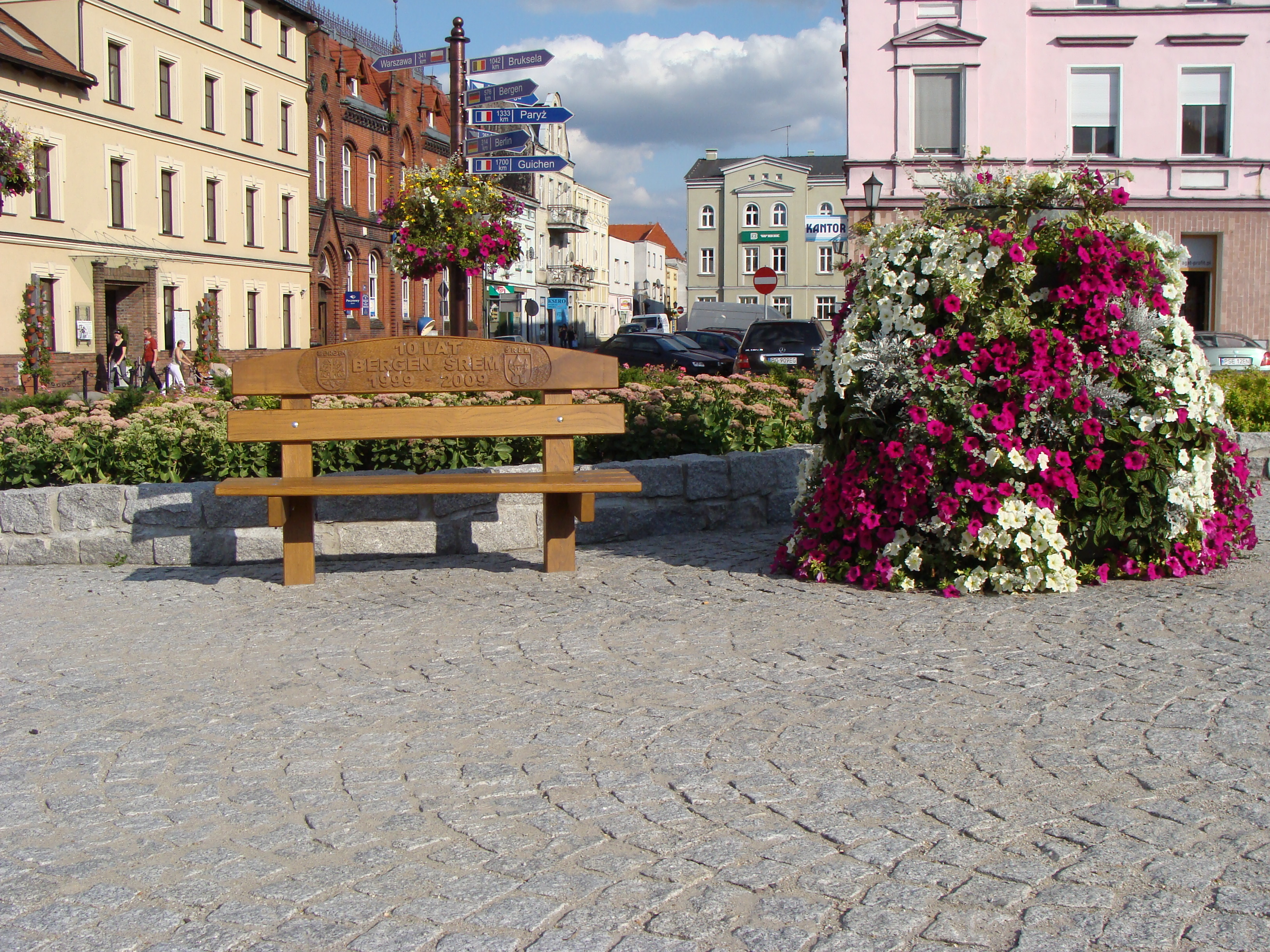 Śrem, memorial bench of 10 years co-operation with Bergen (Germany).